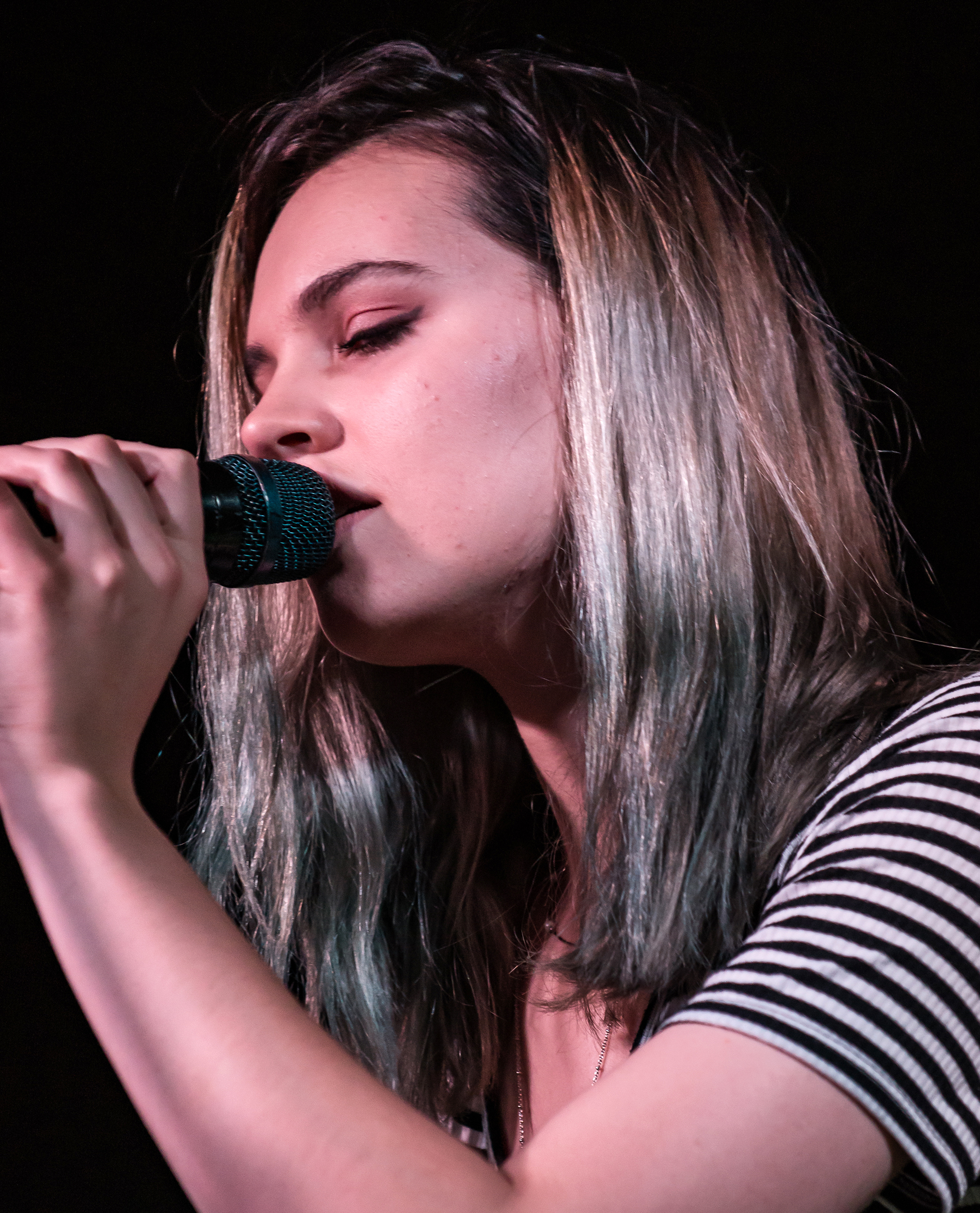 Soren Bryce performing live in Los Angeles in January 2017.